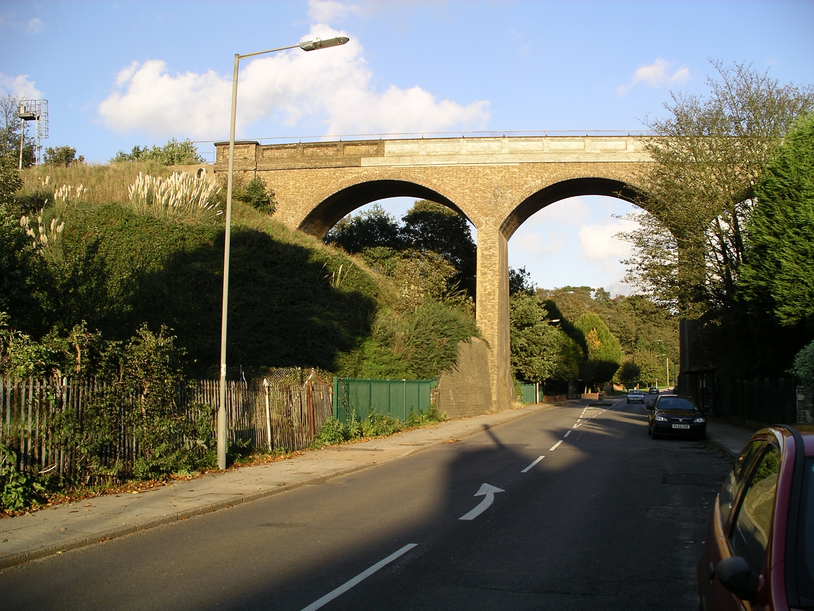 Photo taken by me on 24 October 2006. It shows the railway bridge over Spring Road in Ipswich, England. I think that the image is orphaned having been replaced with a slightly better one. This image is from the west and the new image is from the east, so I would be good if this image was uploaded to wiki commons into the category Ipswich there. Snowman 18:03, 15 September 2007 (UTC)